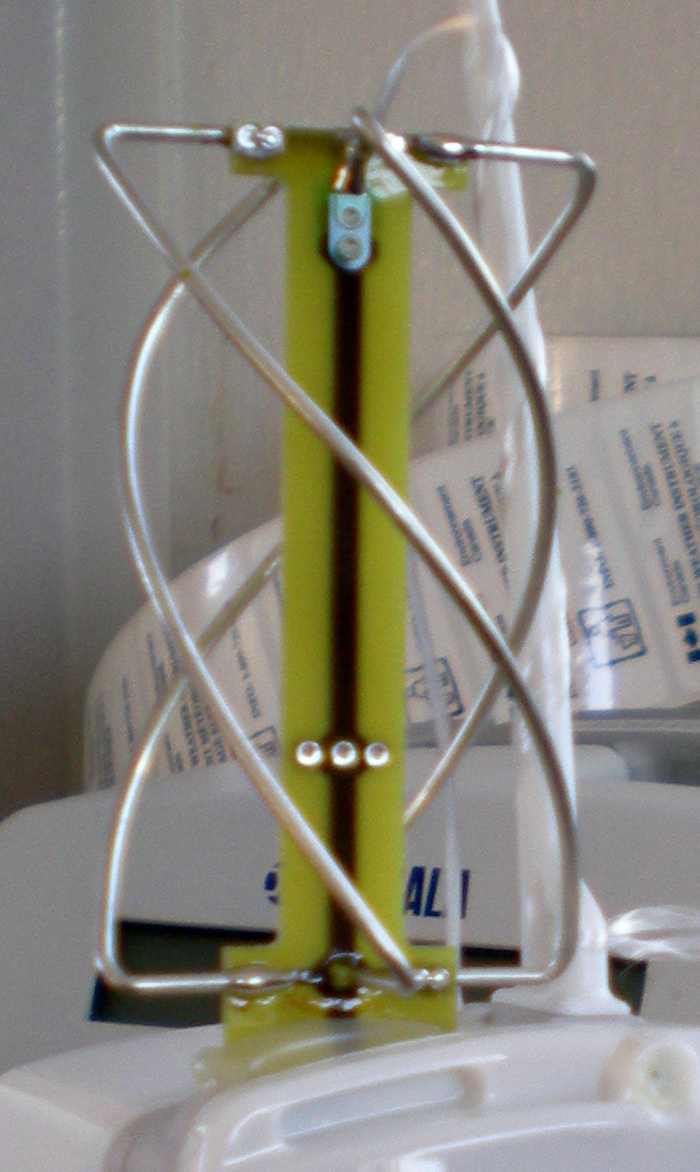 Backfire resonant quadrifilar helix antenna for receiving global navigation satellite system signals (GNSS), e.g. GPS or GLONASS, mounted on a drop radiosonde